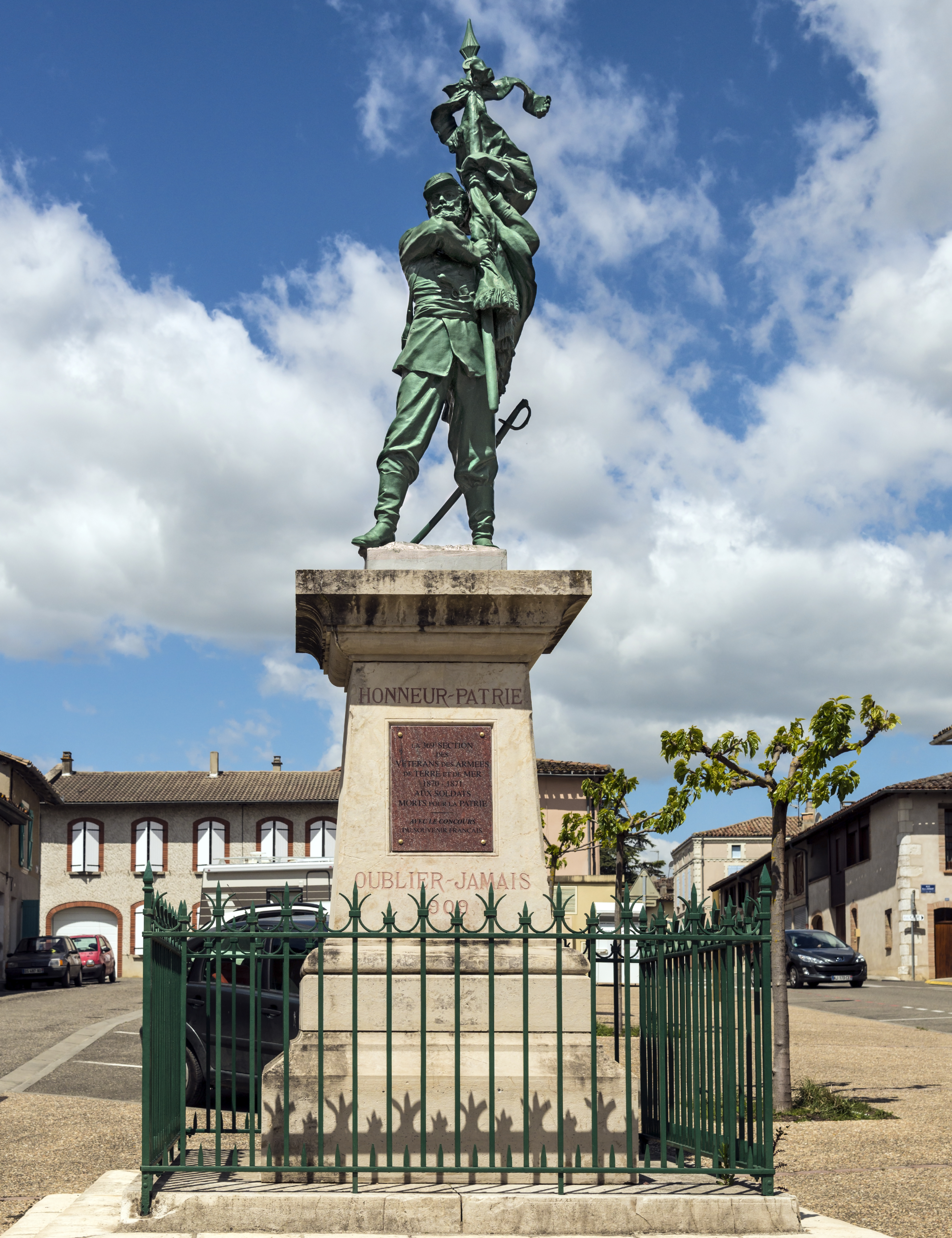 Beaumont-de-Lomagne Tarn-et-Garonne France. Franco-Prussian War memorials